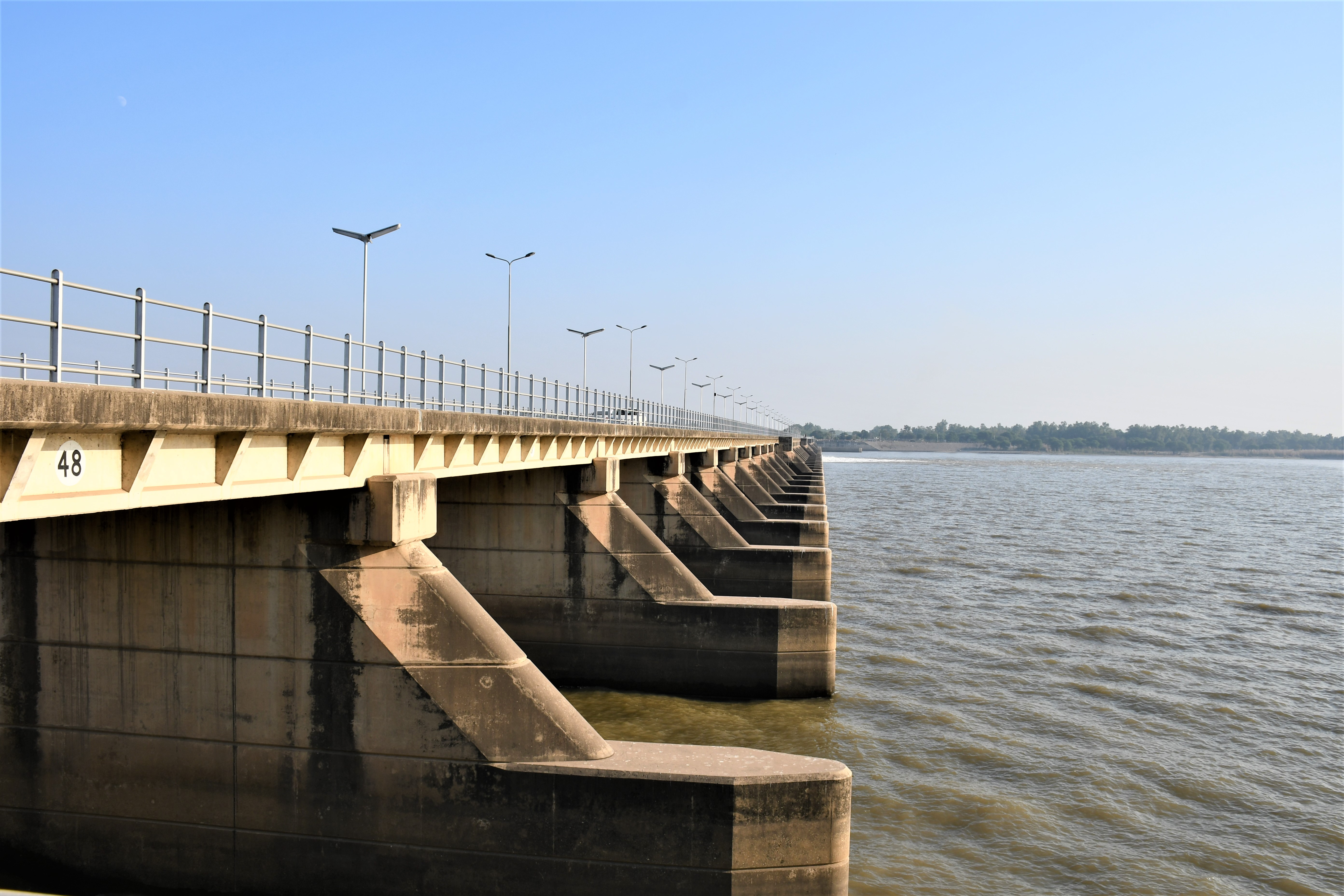 This is Rasul Barrage at River Jhelum, the point where Rasul-Qadirabad Link Canal and Lower Jhelum Canal off take from the river. The new Jalalpur Canal will also be off-taking from this barrage.